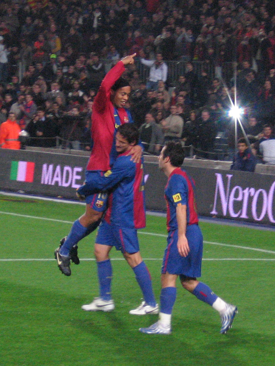 Ronaldinho, Futbol Club Barcelona's player, celebrates with Belletti and Giuly a goal against Real Sociedad.